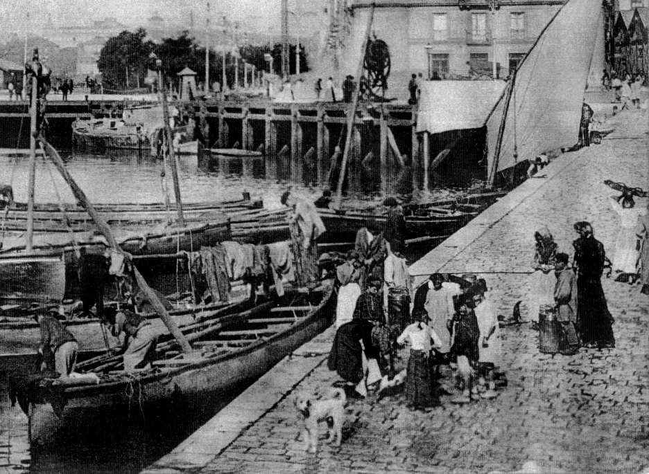 Cantabrian water dog in the port of Santander, Cantabria, in early 20th century.